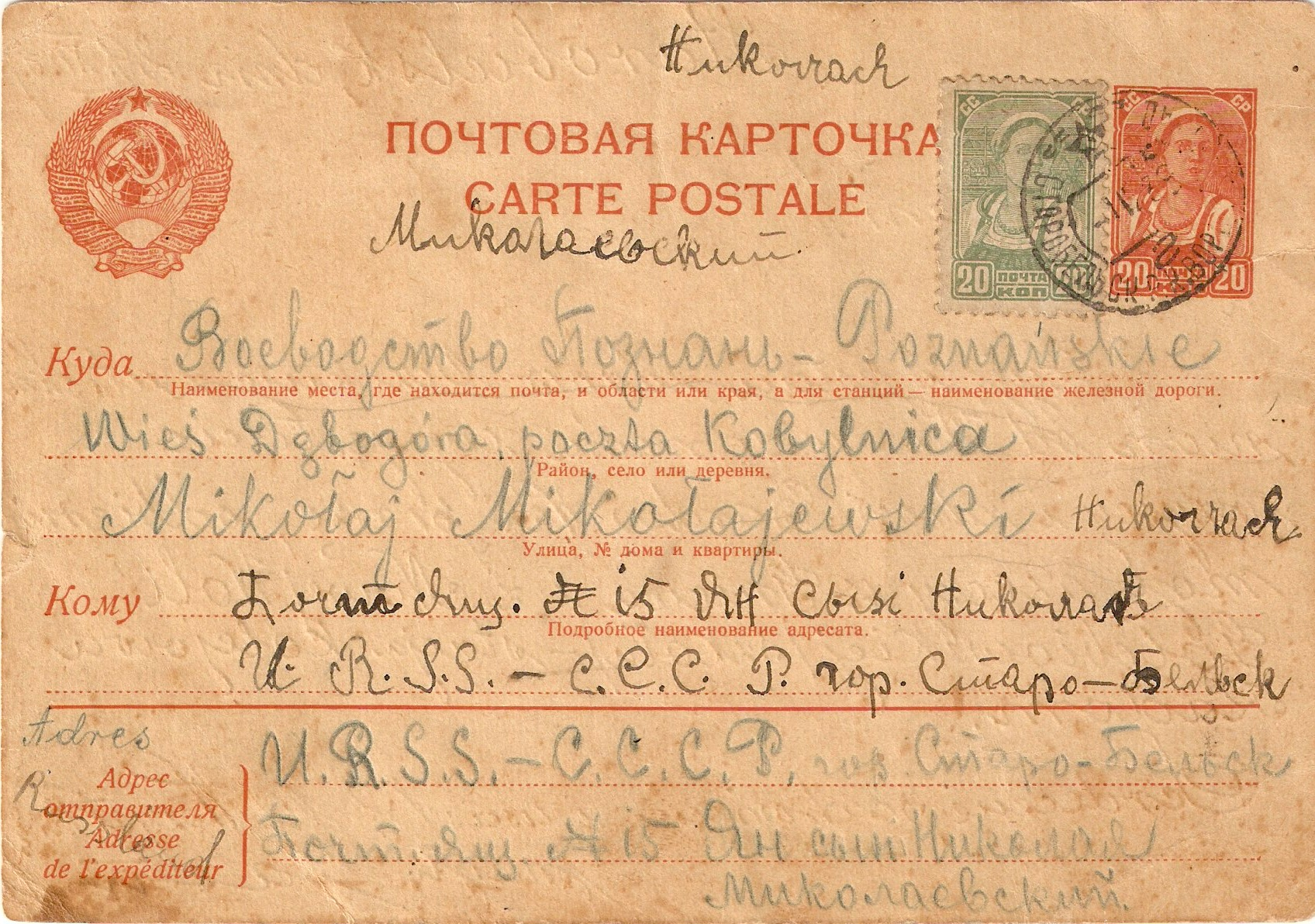 Post card from USSR camp for polish officers